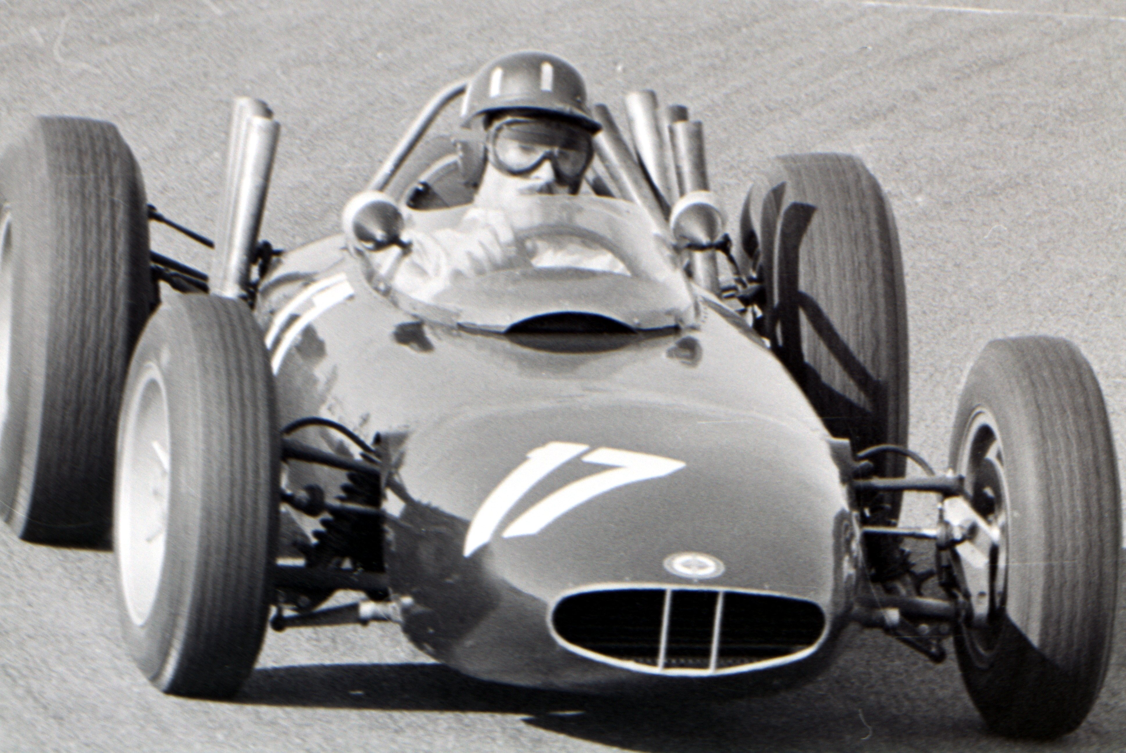 Graham Hill racing at Zandvoort in a BRM nr 17